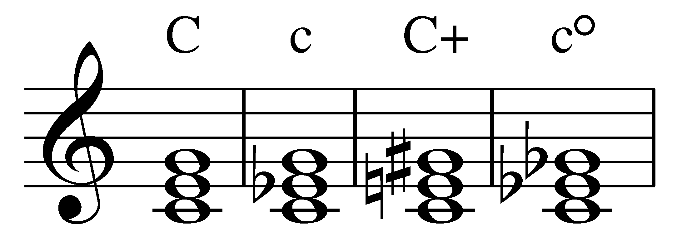 Macro analysis for triads on C.